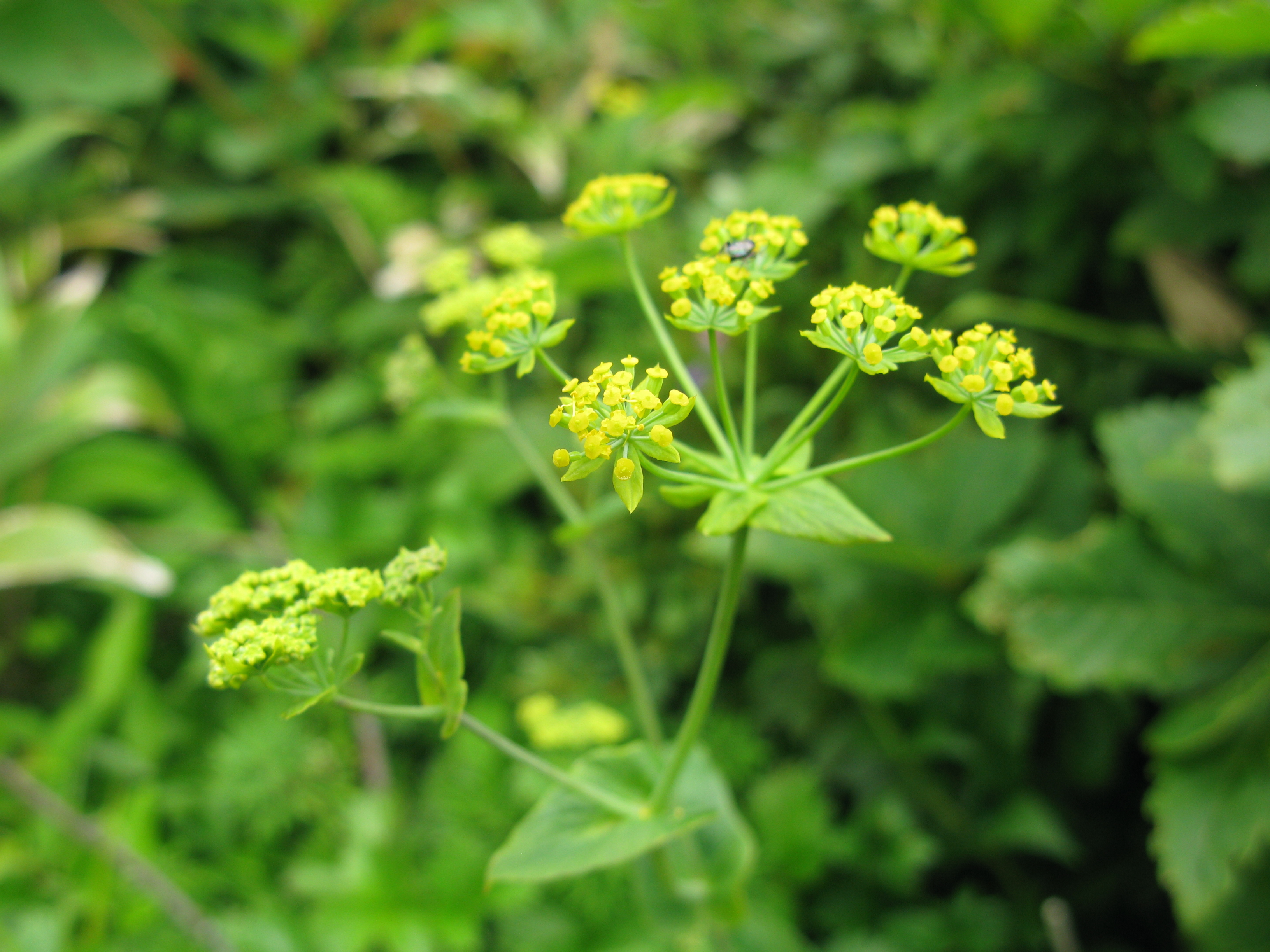 Bupleurum longiradiatum var. elatius, Mt. Bandaisan, Fukushima pref., Japan